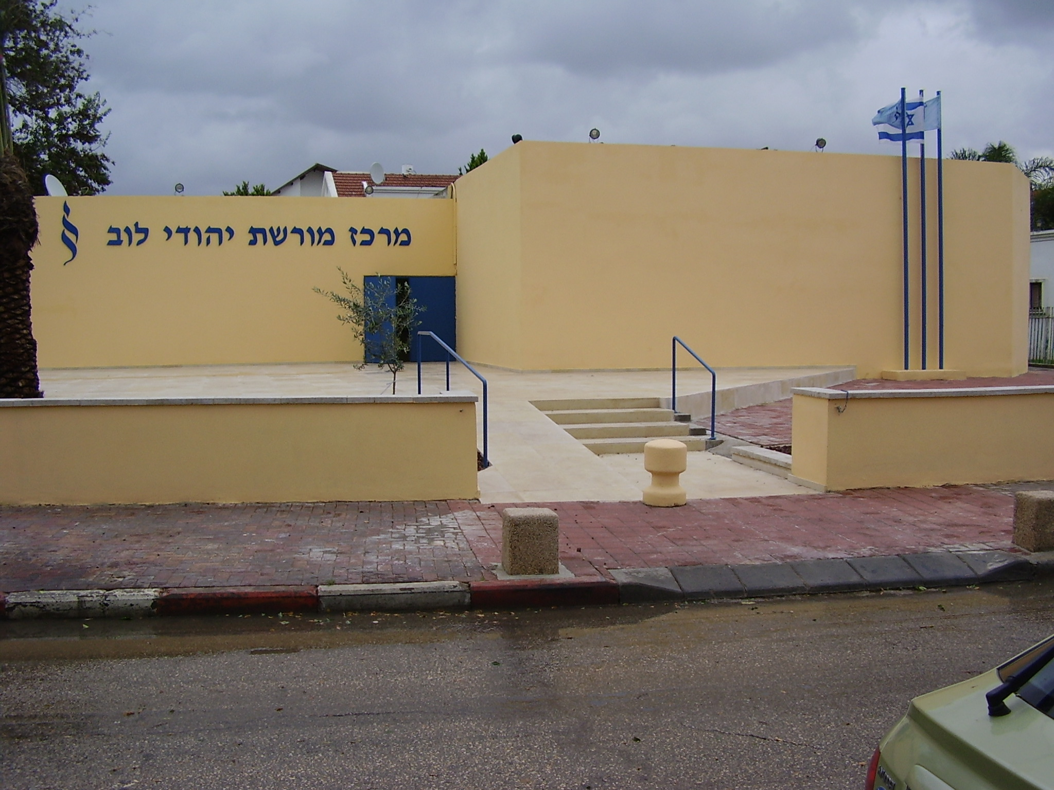 lybian jewish heritage museum in or yehuda